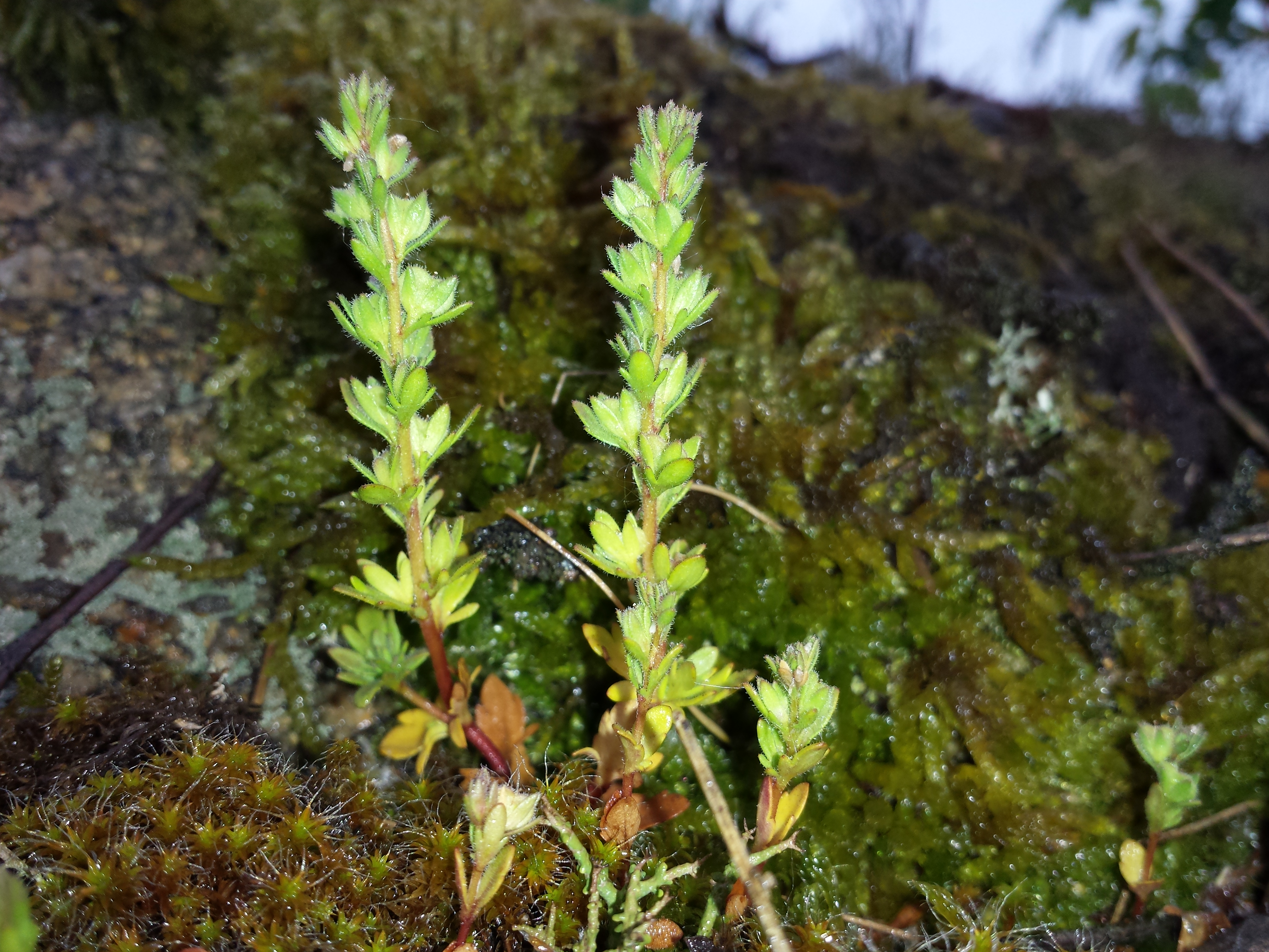 Habitus Taxonym: Veronica verna s. str. ss Fischer et al. EfÖLS 2008 ISBN 978-3-85474-187-9 Location: Hühnerbühel near Etzmannsdorf, district Horn, Lower Austria - ca. 350 m a.s.l. Habitat: acid dry grassland